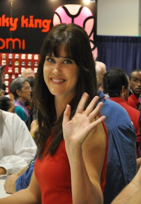 Sarah Lancaster at Comic Con 2010